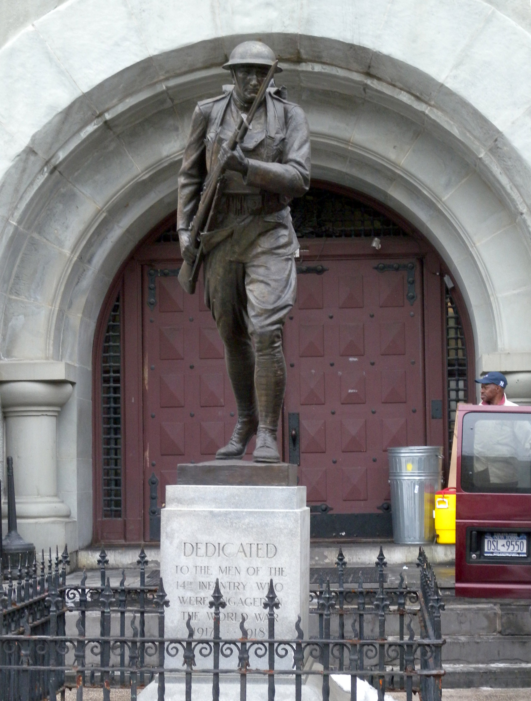 Looking northwest from 8th Avenue at en:14th Regiment (New York State Militia) statue on a cloudy afternoon.